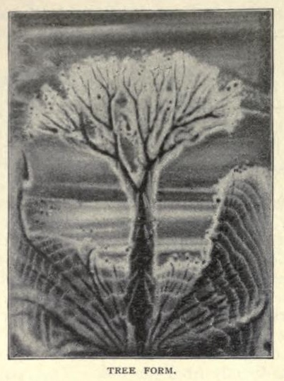 "Tree" - Megan Watts Hughes created these pictures using an eidophone which allowed the resonance of sound to be visualised. These are from a VISIBLE SOUND -- VOICE-FIGURES by Margaret Watts Hughes [Century Magazine 42, 37 (1891). The phenomona was demonstrated to the Royal Society